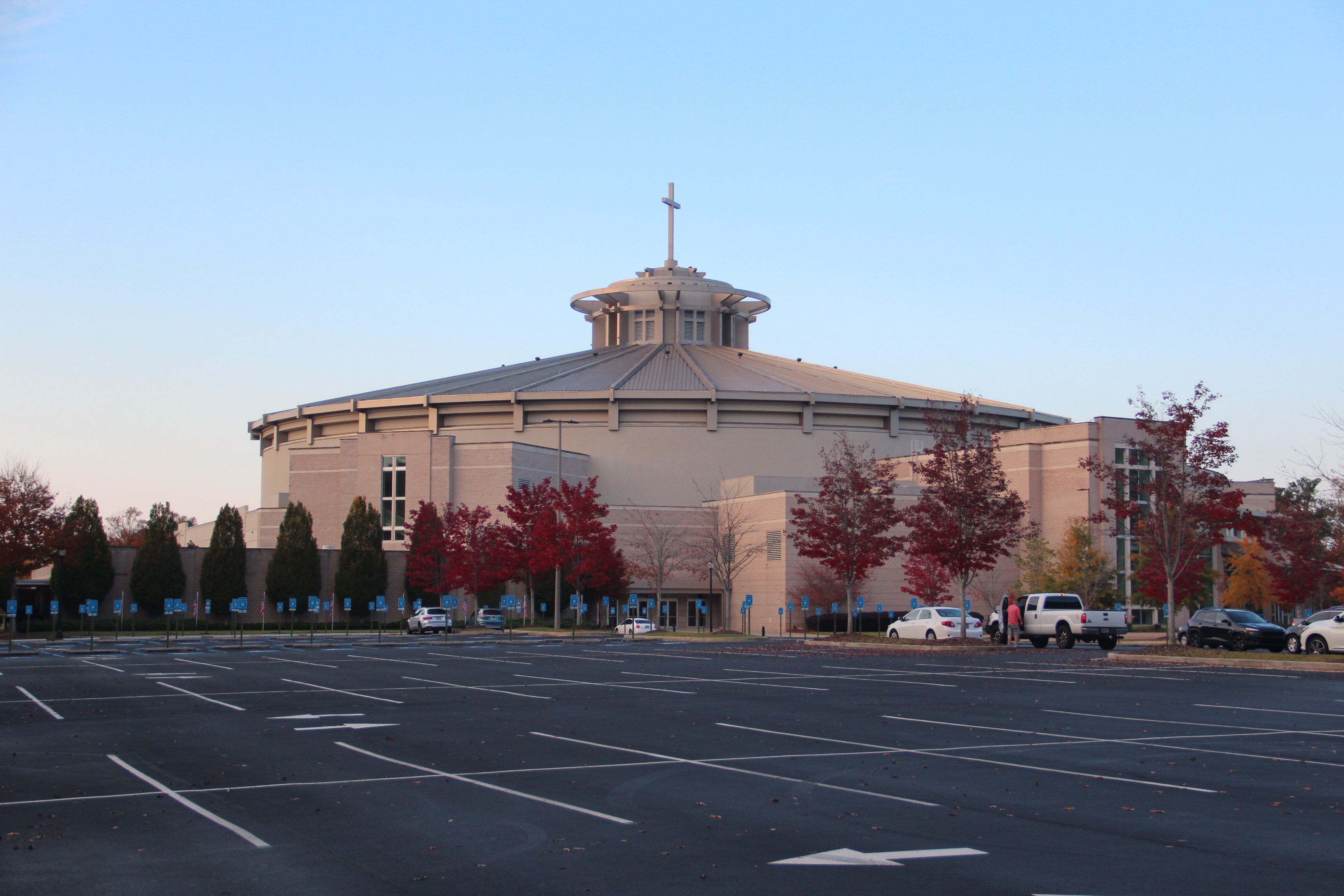 First Baptist Church (Woodstock, Georgia)